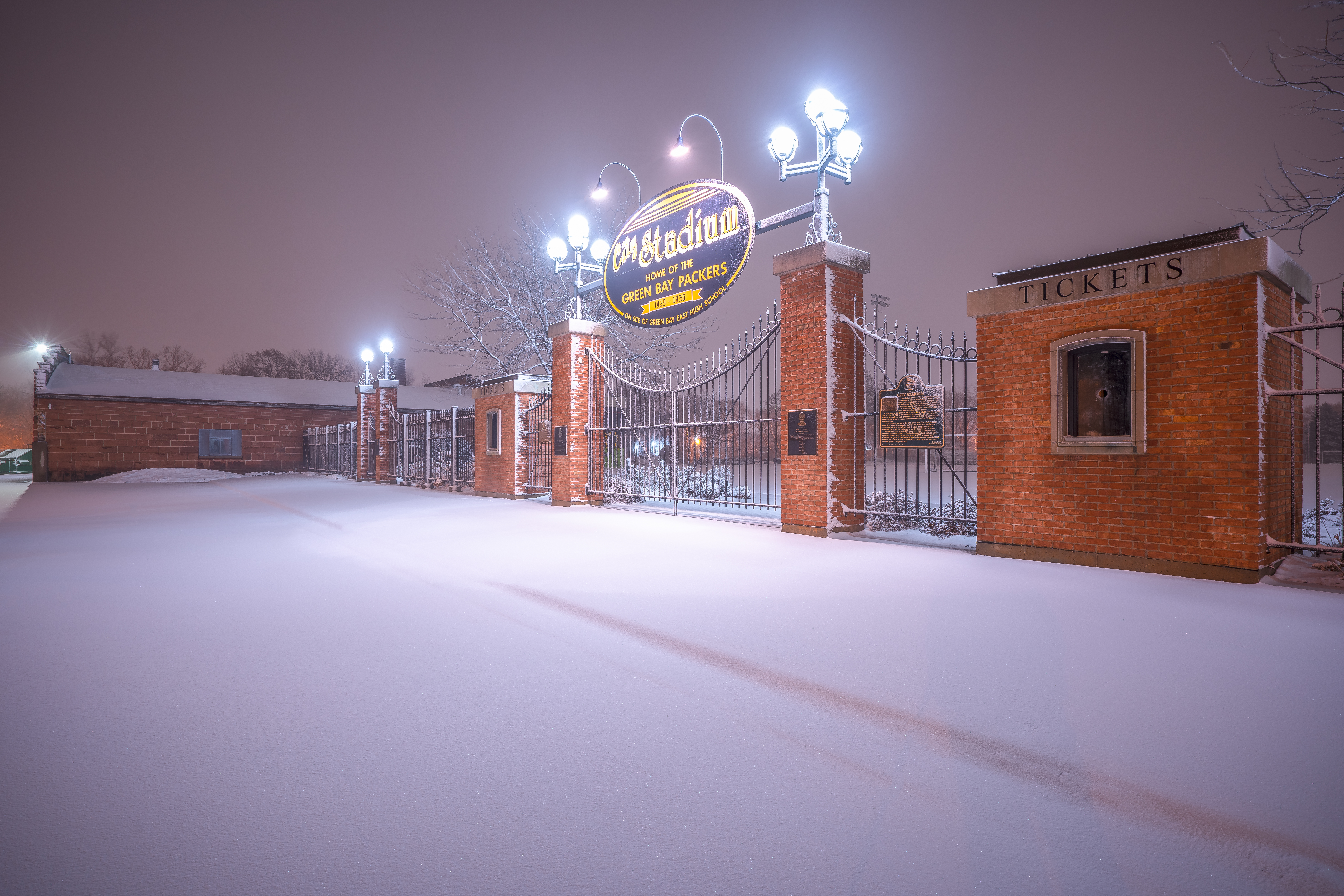 City Stadium, home of the Green Bay Packers from 1925-1956, On the site of Green Bay East High School.